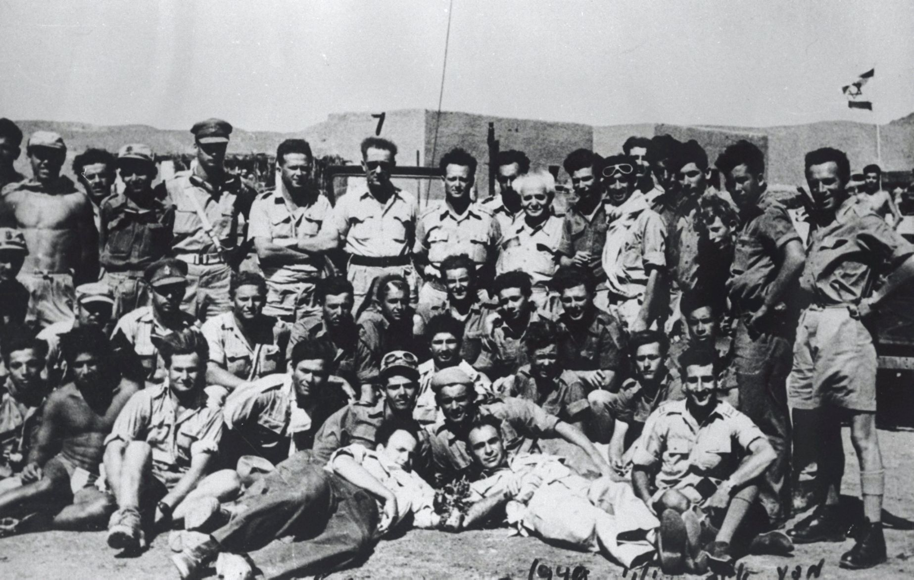 David Ben-Gurion, Yigal Alon, Yitzhak Ziv-Av, Yitzhak Rabin with soldiers after the conquest of Elat (Um Rashrash).